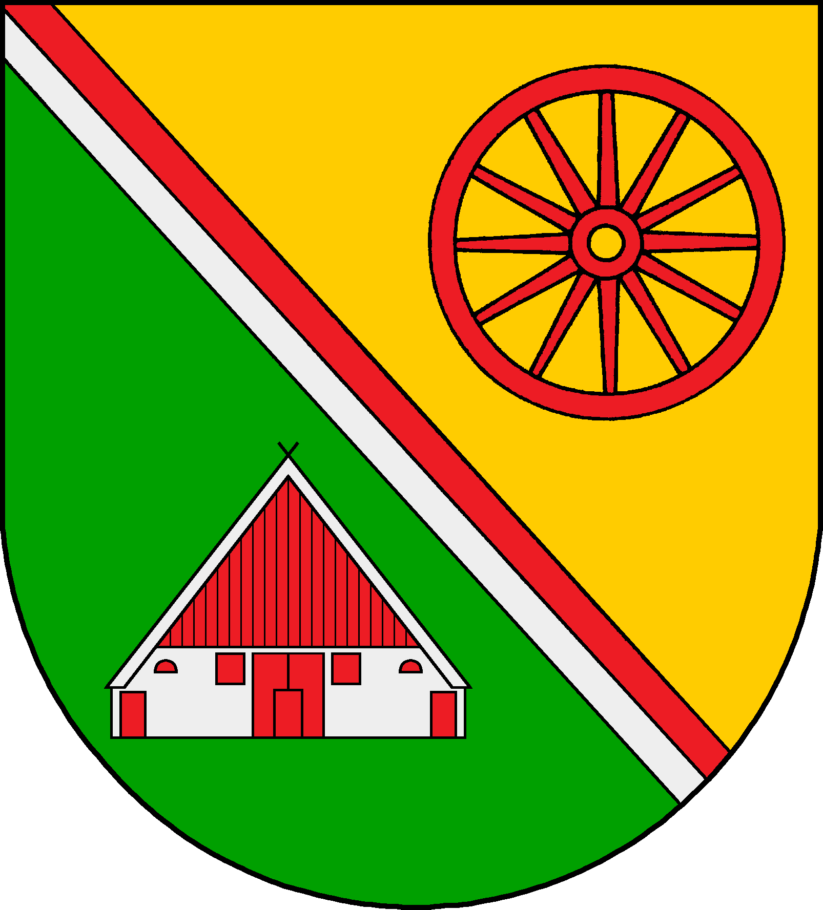 Coat of arms of the municipality Groß Nordende in Schleswig-Holstein, Germany.